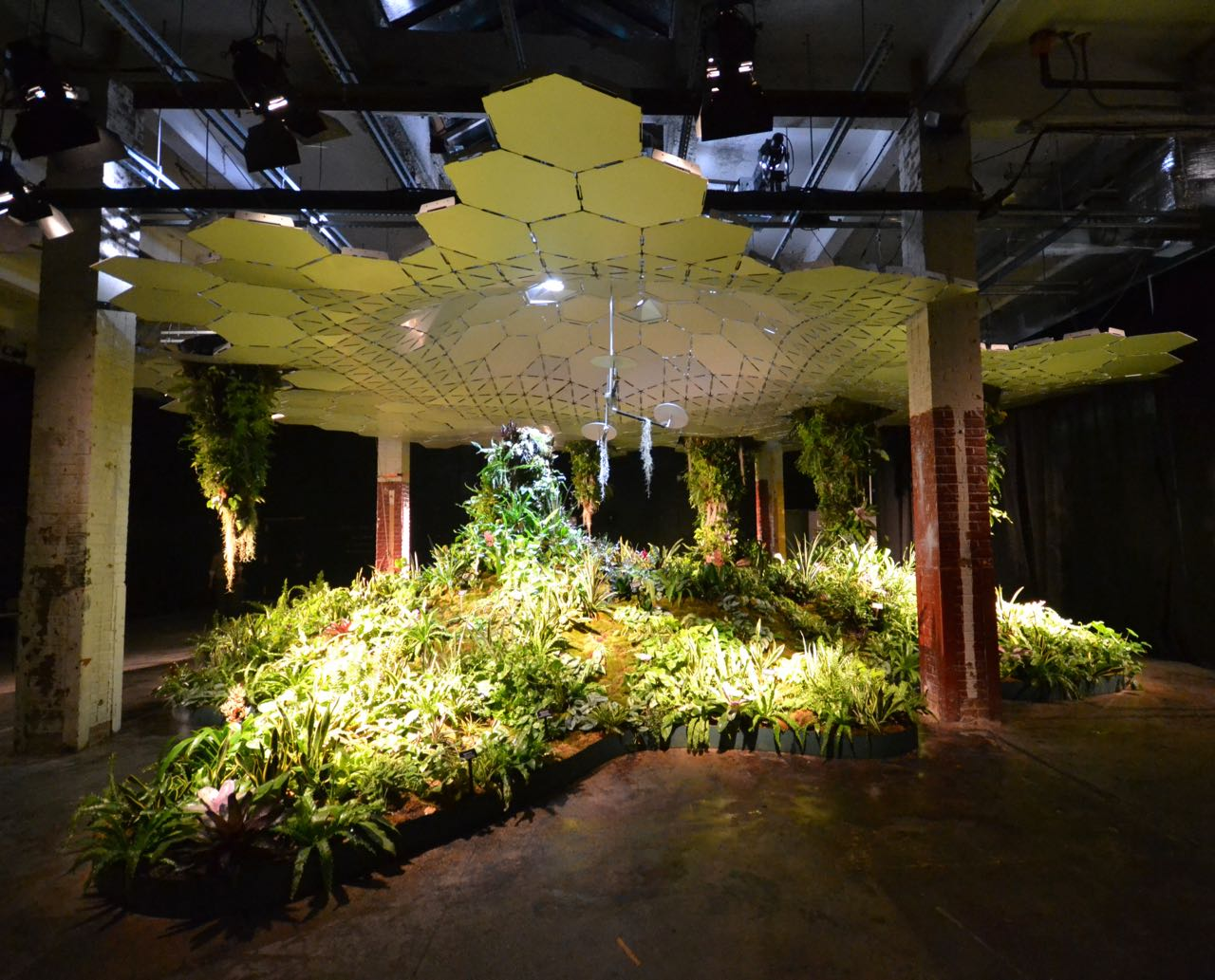 Lowline Lab, 140 Essex St., New York, NY